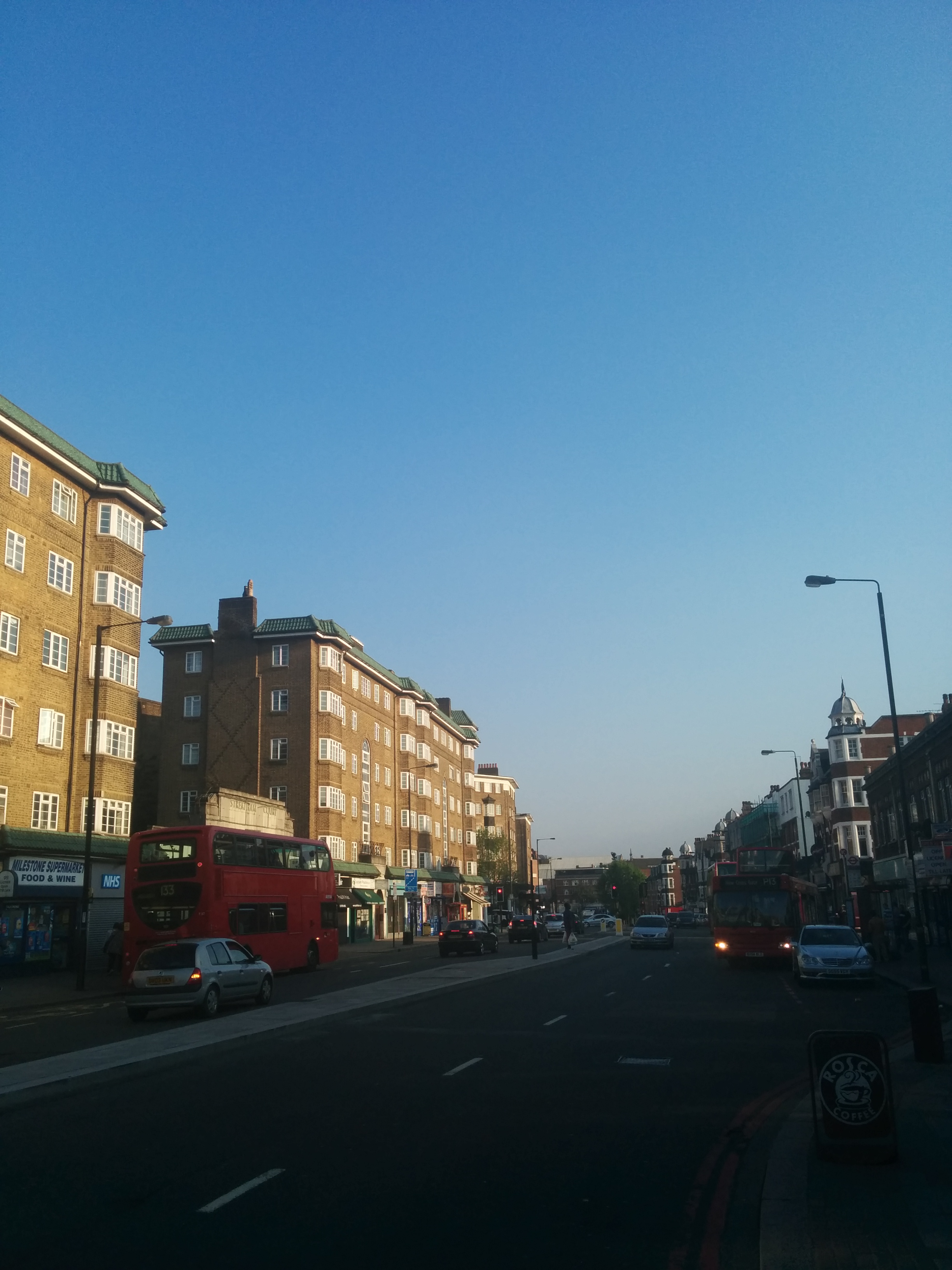 The north end of Streatham High Road, looking south.